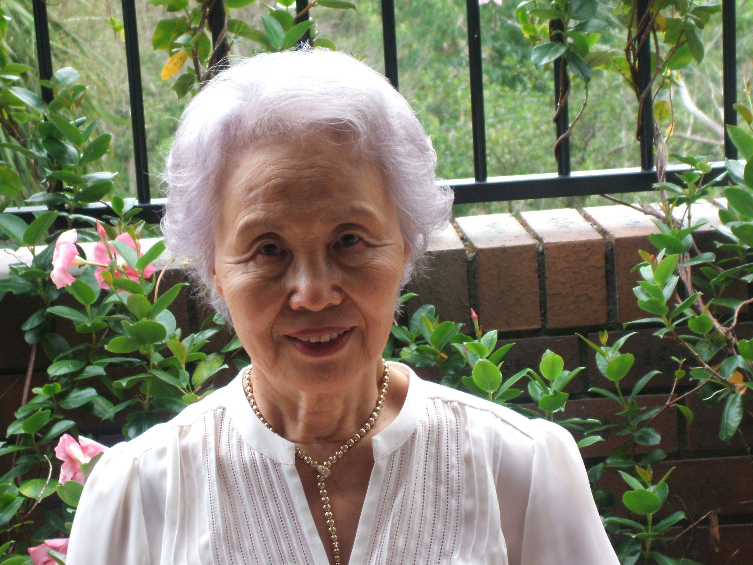 Personal photograph